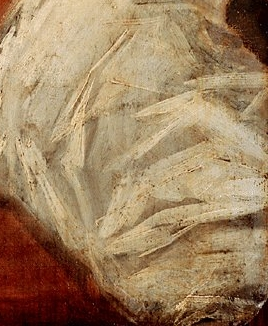 Detail of Frans Hals painting showing use of painting knife